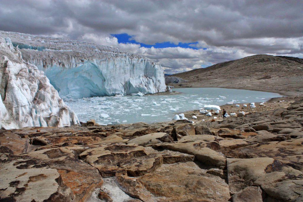 Quelccaya Glacier located in southern Peru in the Cordillera Vilcanota.